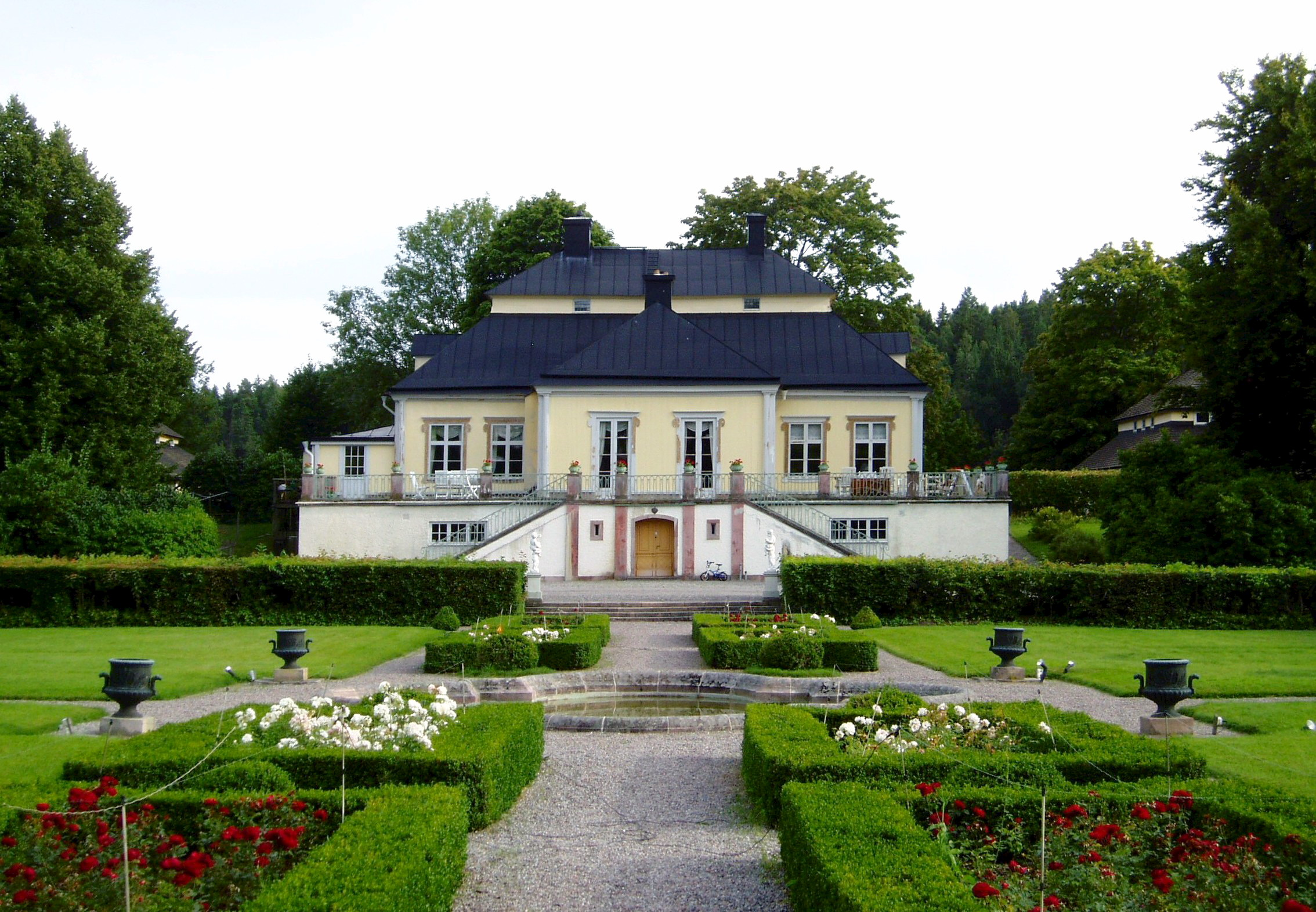 Beatelund mansion, Värmdö Municipality, Sweden